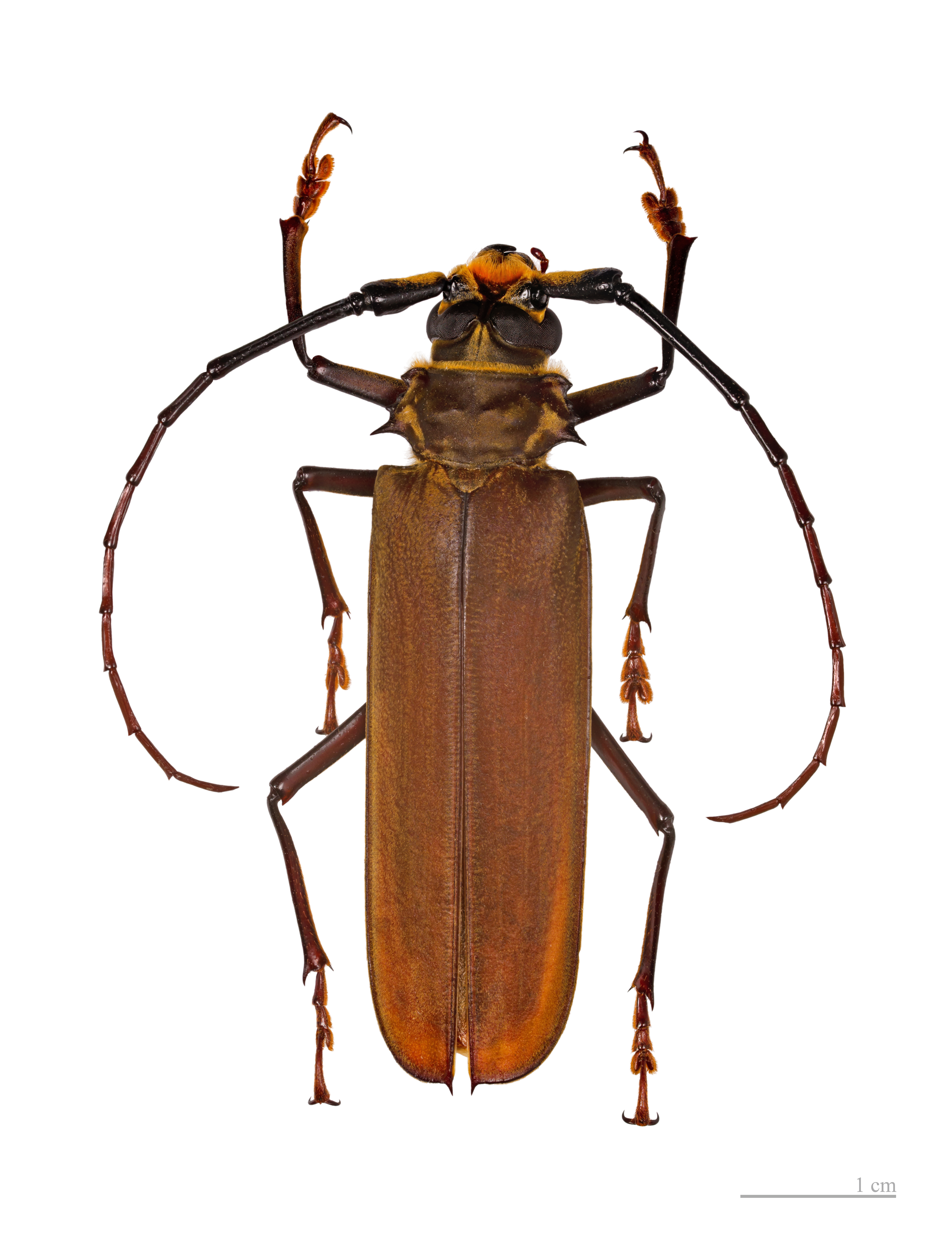 ♂ - Dorsal side Locality : Kourou, Mont des singes, French Guiana.